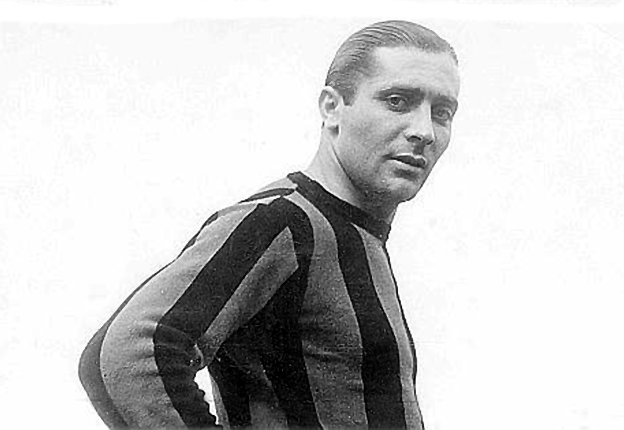 Given by Inter Club Sydney